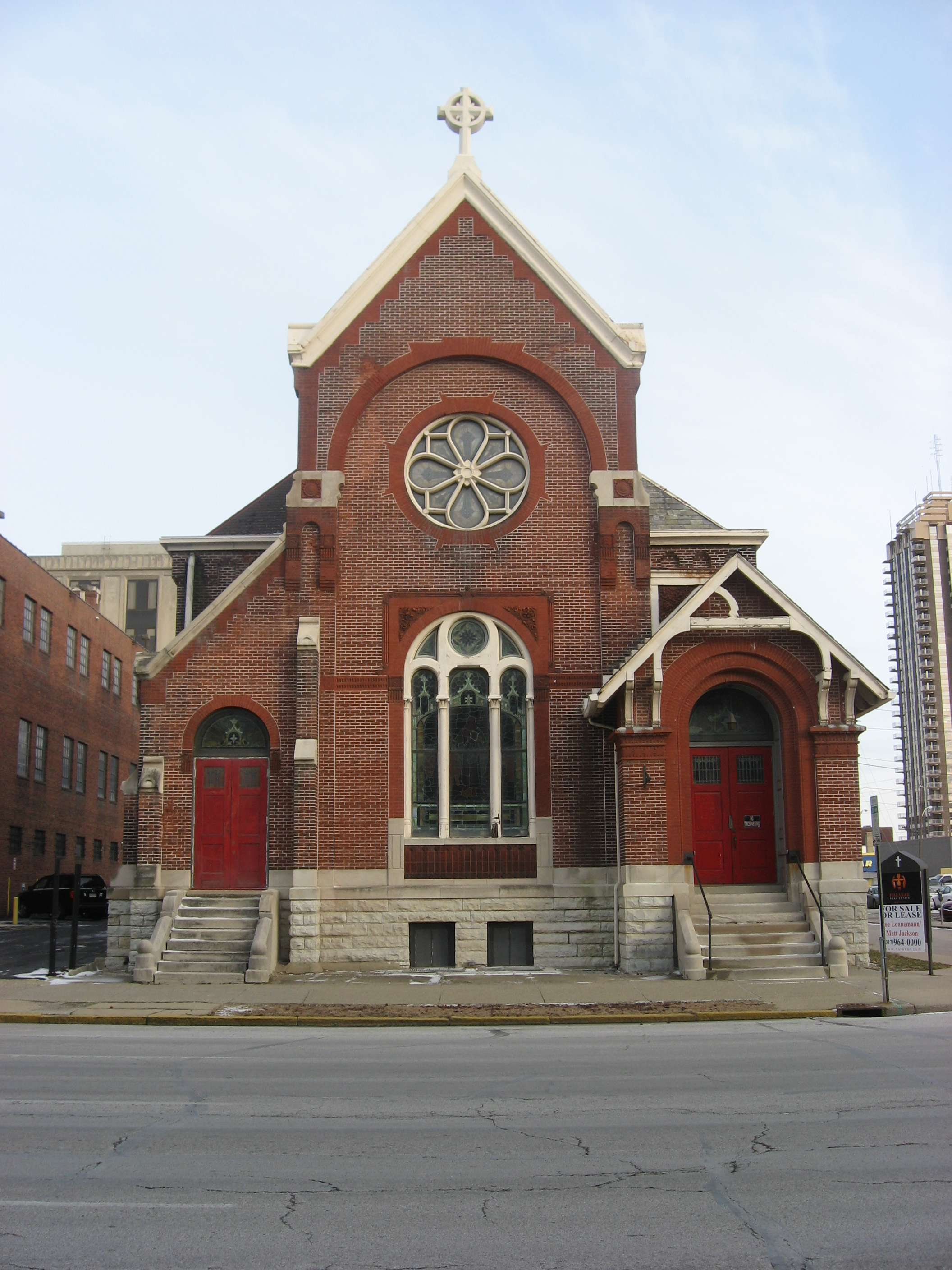 Front of the former Mt. Pisgah Lutheran Church, located at 401 N. Delaware Street in Indianapolis, Indiana, United States. Built in 1875, it is listed on the National Register of Historic Places.